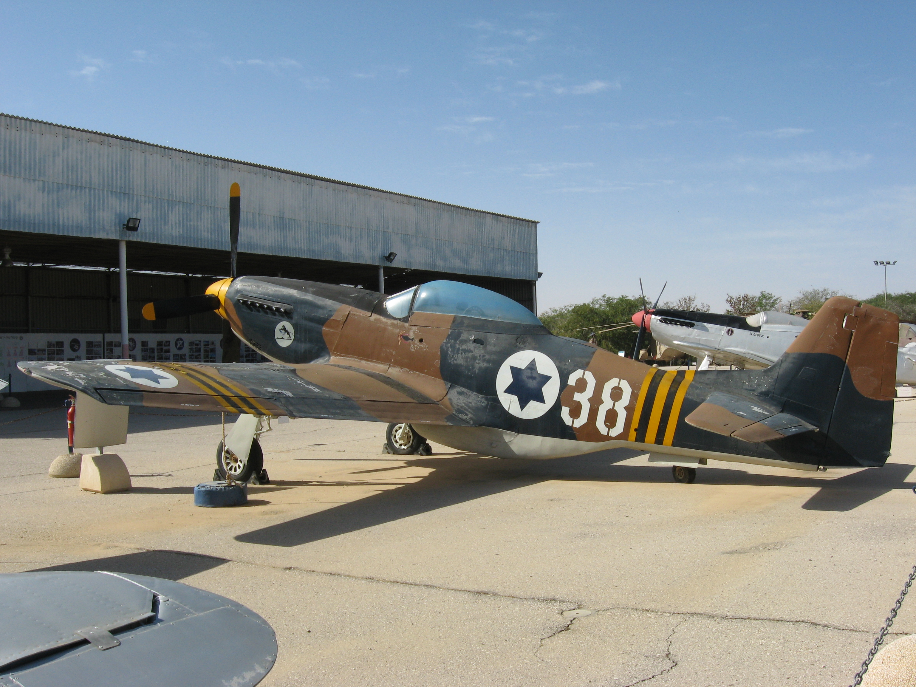 P-51D Mustang at the Israeli Air Force Museum in Hatzerim